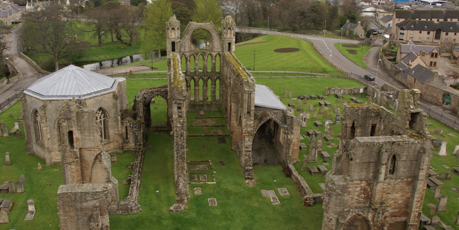 Elgin Cathedral (Scotland) - west front